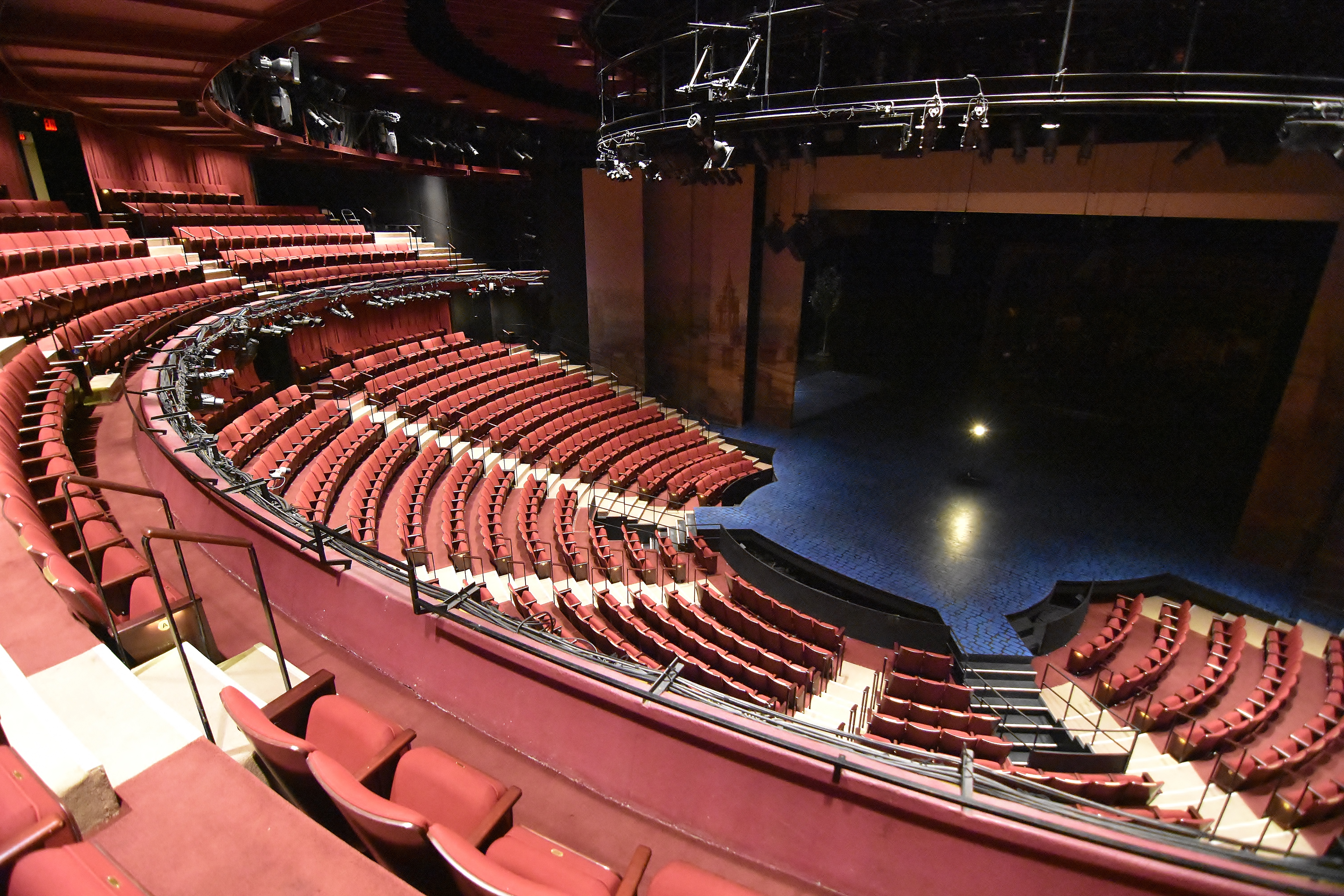 Vivian Beaumont theater interiorSite: Lincoln Center